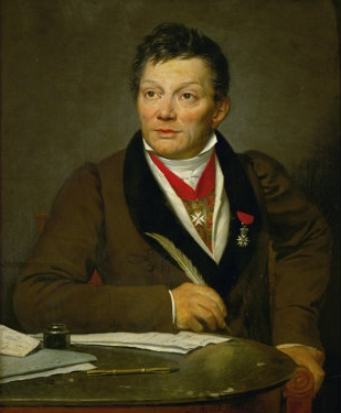 Portrait of French archaeologist Alexandre Lenoir (1761-1839), founder of the Musée des Monuments Français.